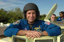 Houston, Texas (Dec. 9, 2006) - Official File Photo of Cmdr. William L. Oefelein, NASA Astronaut. Photo courtesy of NASA (RELEASED)